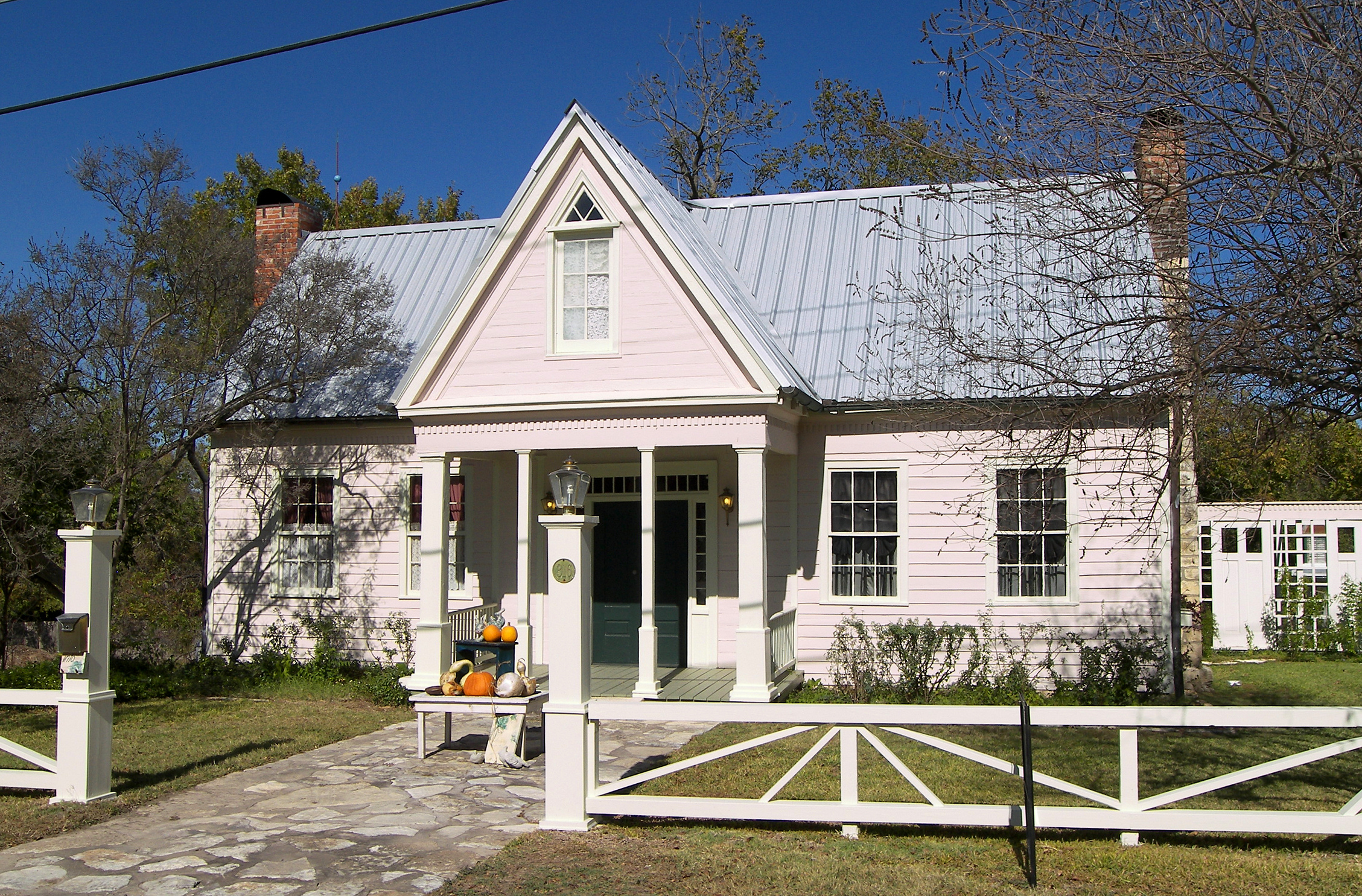 The George Washington Baines House located in Salado, Texas, United States. The house was designated a Recorded Texas Historic Landmark in 1981 and listed on the National Register of Historic Places on April 5, 1983.